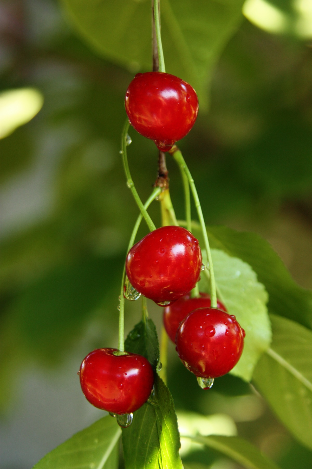 Sour cherry fruit